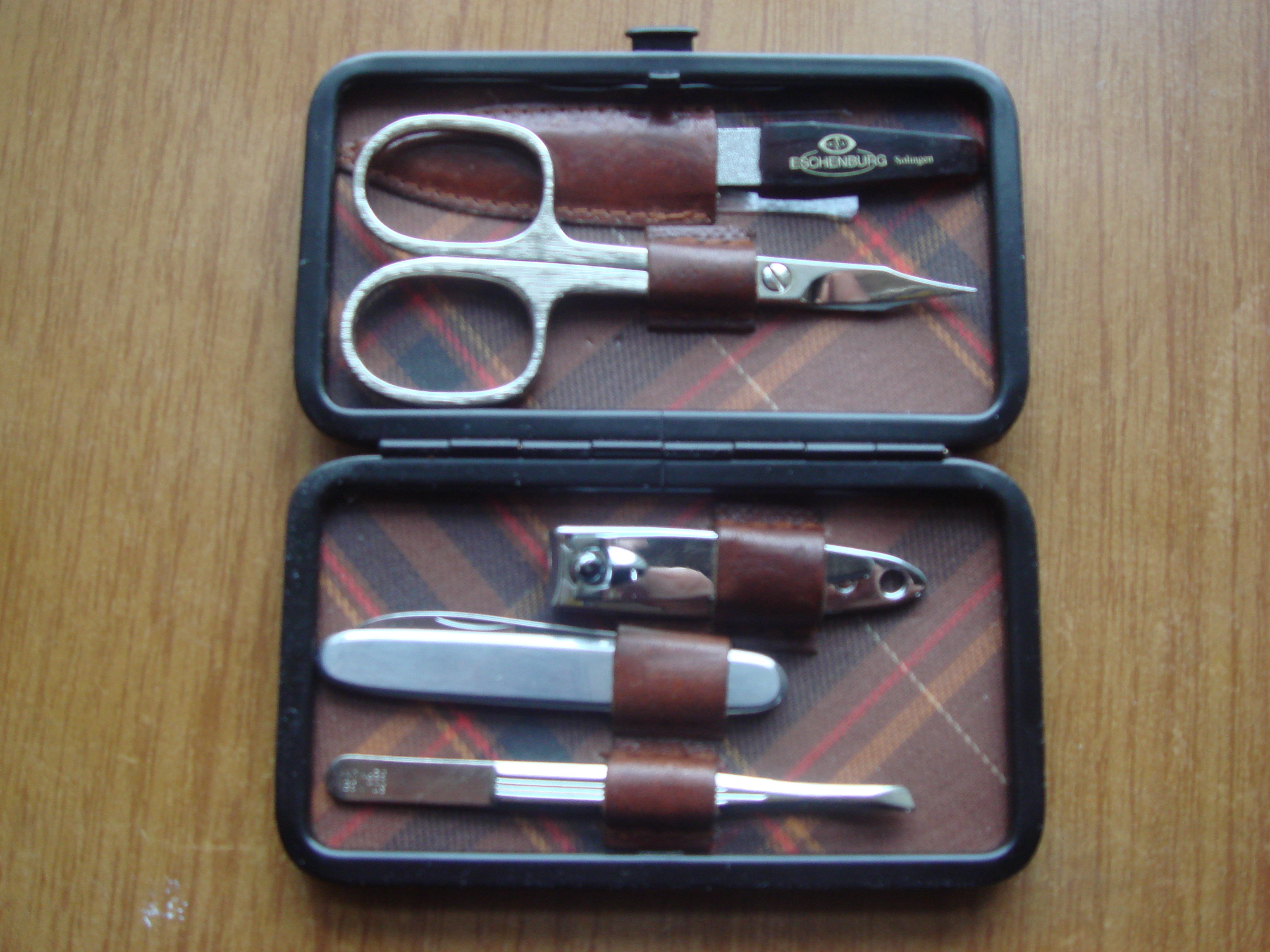 The Bridge brown leather manicure set, open